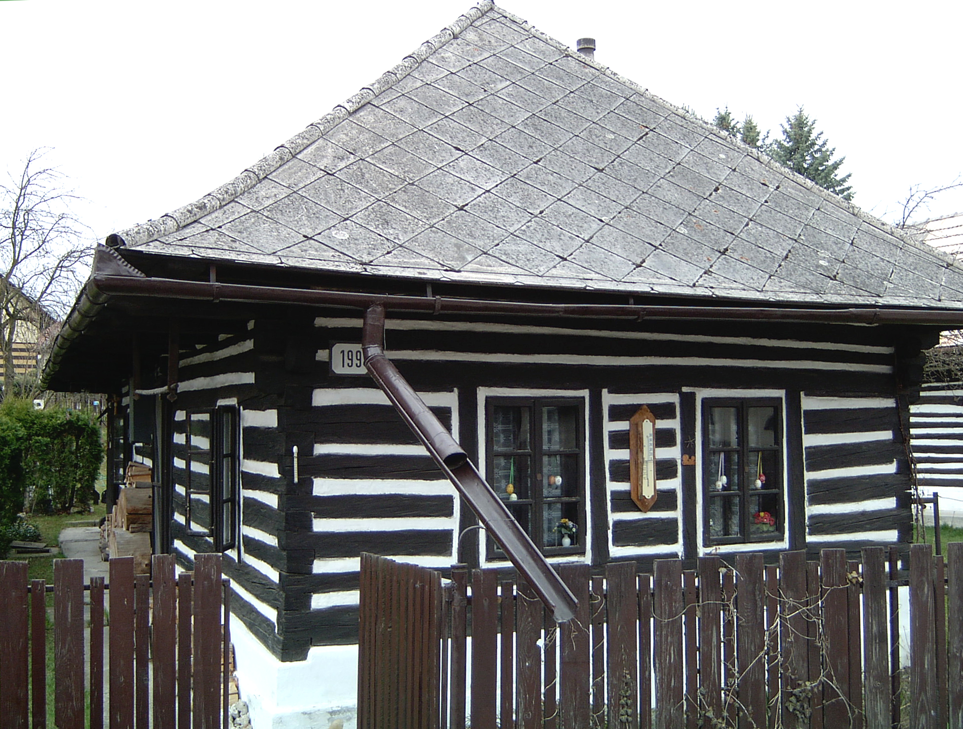 The original architecture of houses in Mosovce - Slovakia